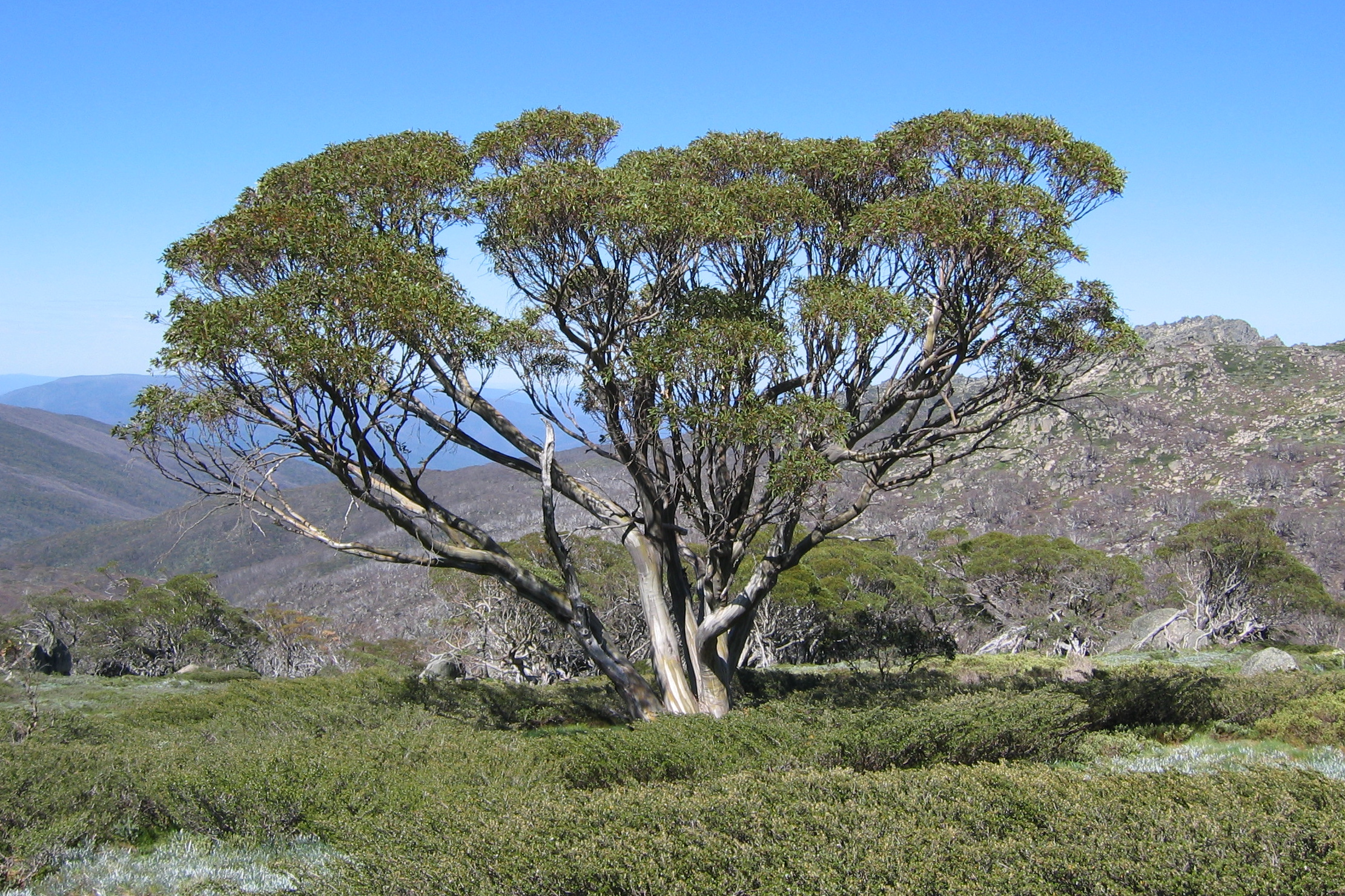 Snow Gum on the Dead Horse Gap Walk, Kosciusko National Park